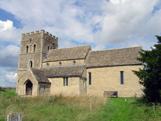 Church of England parish church of St Luke, Tixover, Rutland: view from the southeast